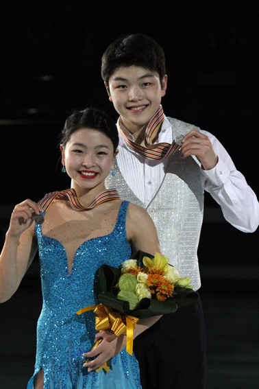 Maia Shibutani / Alex Shibutani at the 2011 Four Continents Championships.